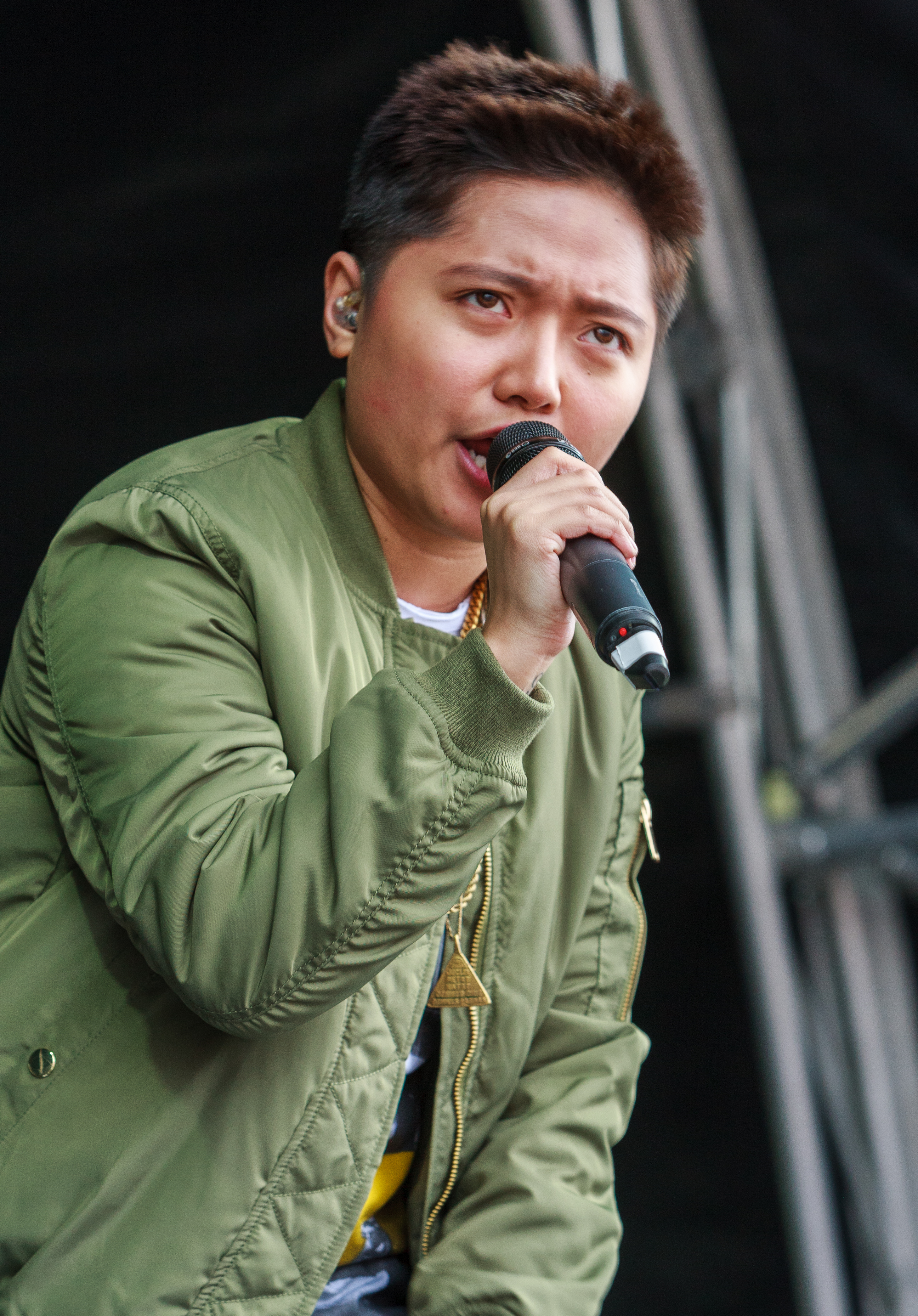 Charice!! - 118th Philippine Independence Day, Morden Fiesta, London, UK.